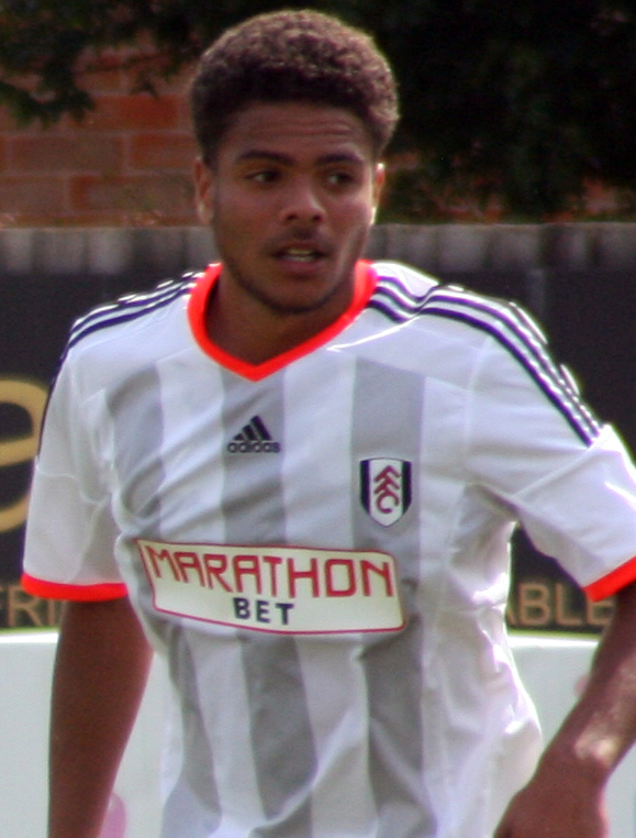 Josh Passley in action for Fulham in July 2014.